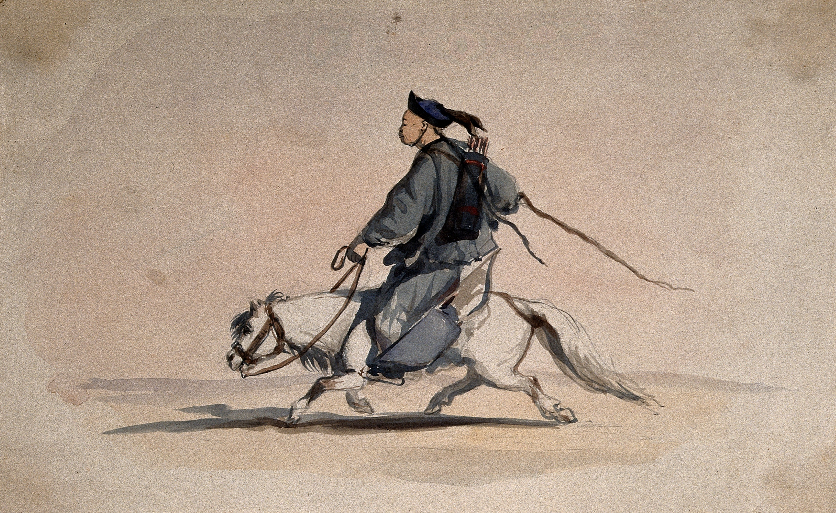 A Chinese soldier bearing weapons on his back and riding a horse. Iconographic Collections Keywords: Horses; Horse; Felice A. Beato; Arrow War; Military History; Weapons; Anglo Chinese War; Second Opium War; China; Riding; Qing Dynasty